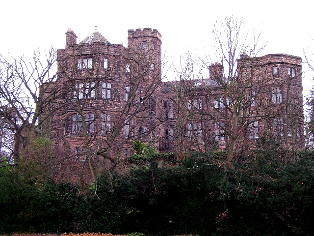 Photograph